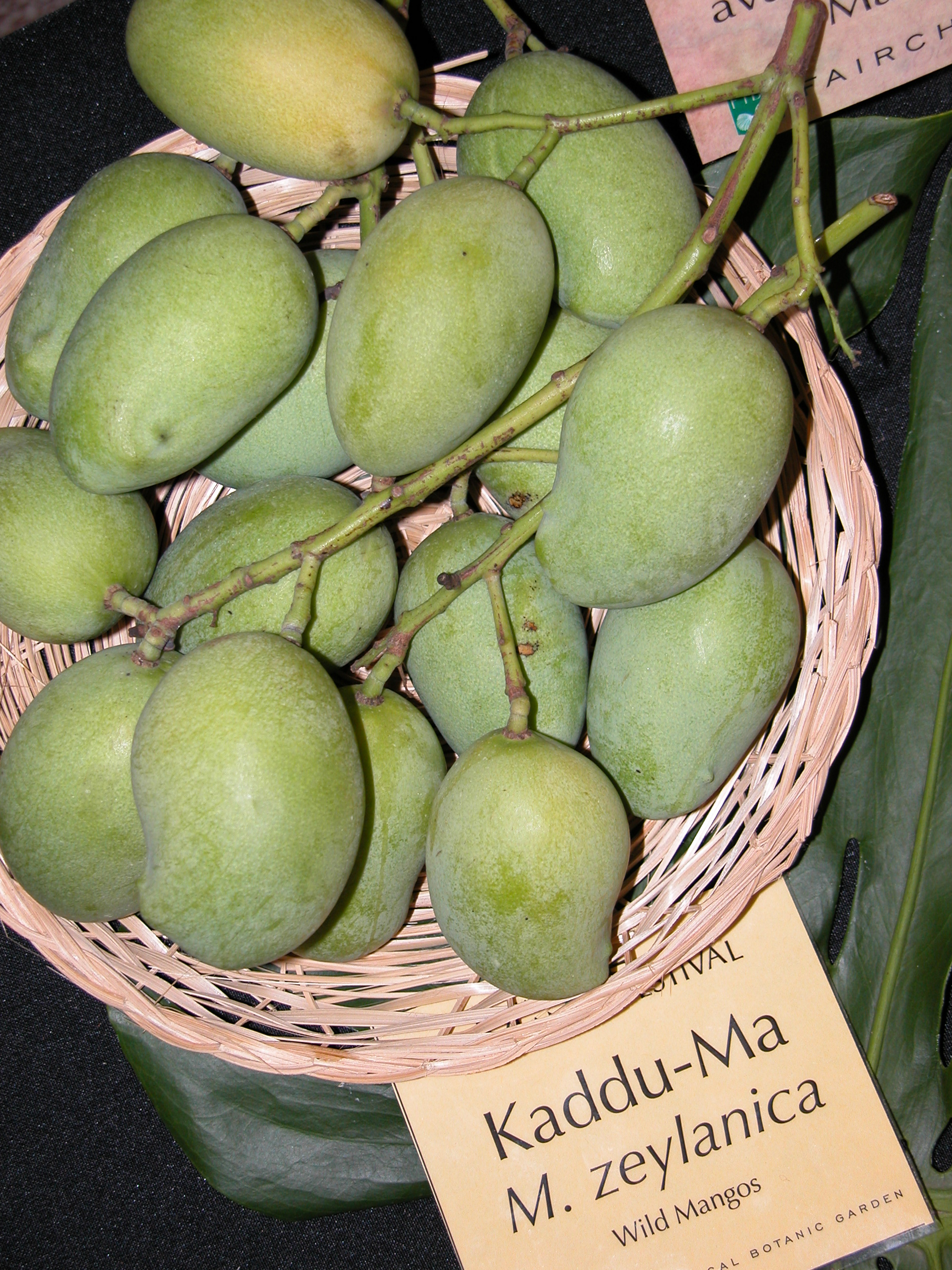 This is a photo of the display of Kaddu-Ma (wild mango) at the 15th Annual International Mango Festival at the Fairchild Tropical Botanic Garden in Coral Gables, Florida.